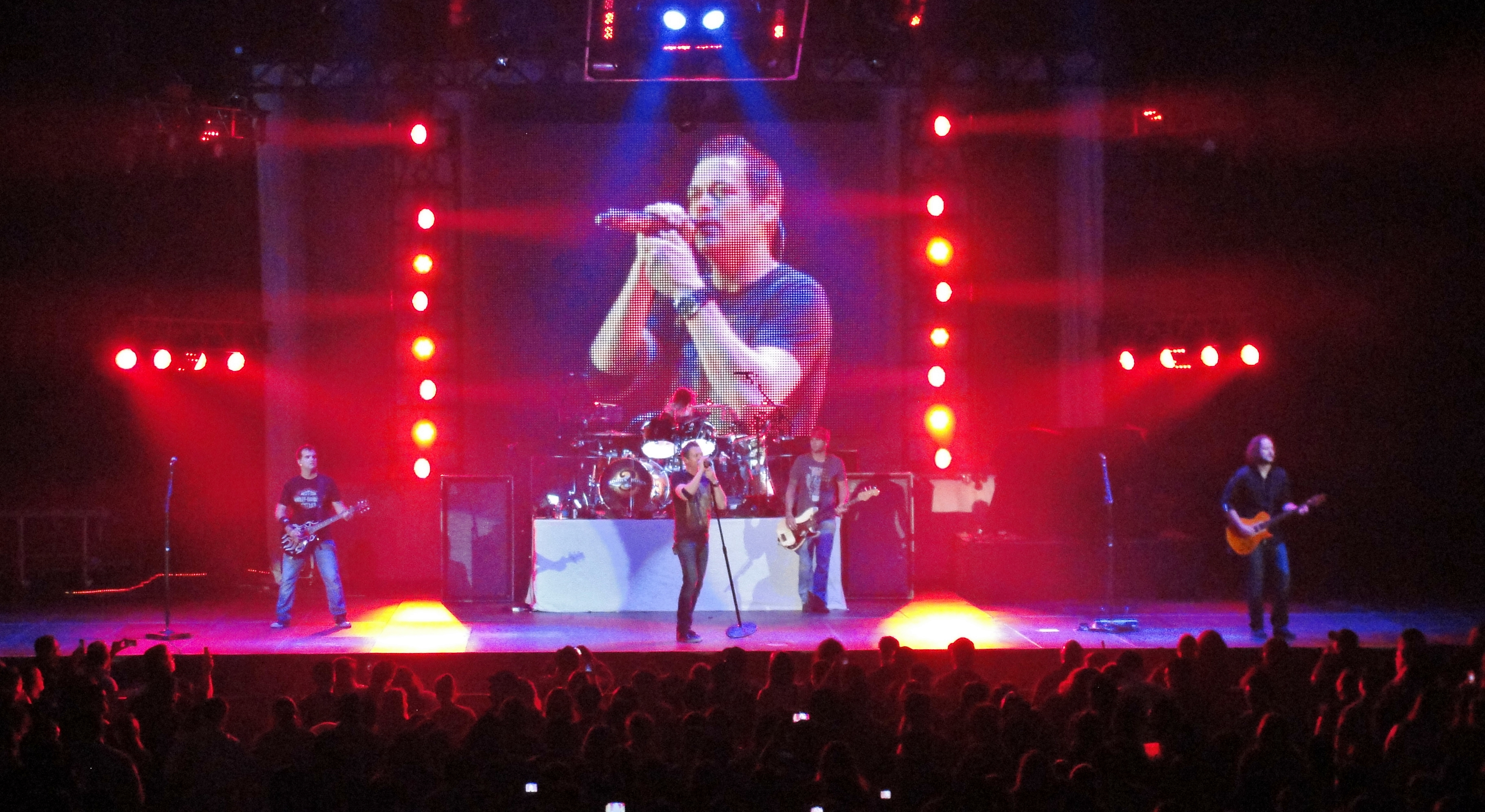 3 Doors Down live @ Laredo Energy Arena in Laredo, Texas